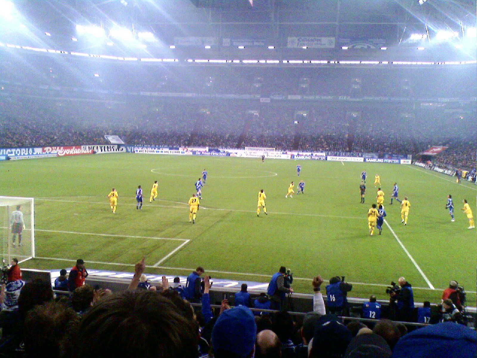 Football game in the Arena Auf Schalke in Gelsenkirchen during the match FC Schalke 04 vs. Borussia Dortmund in 2009.